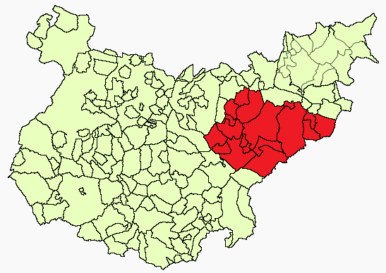 La Serena